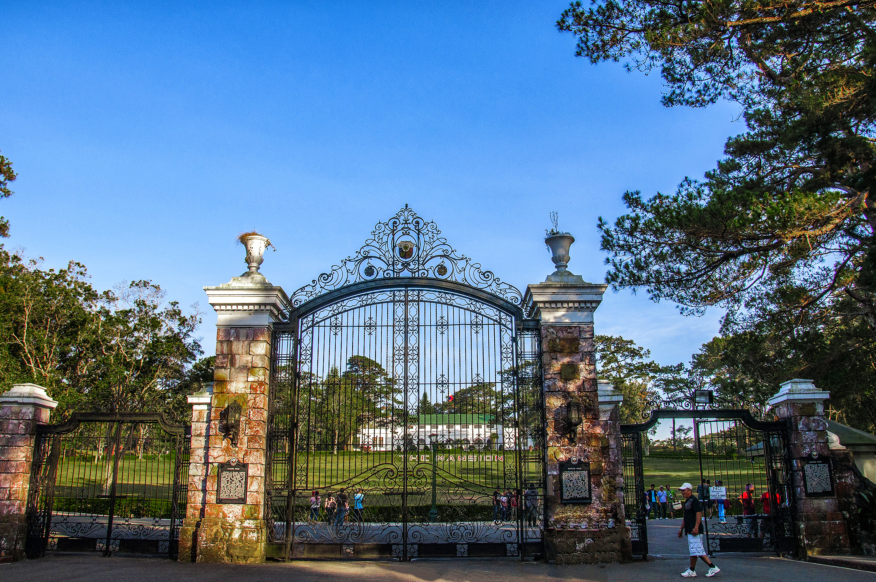 Entrance Gate of the Mansion House, Baguio